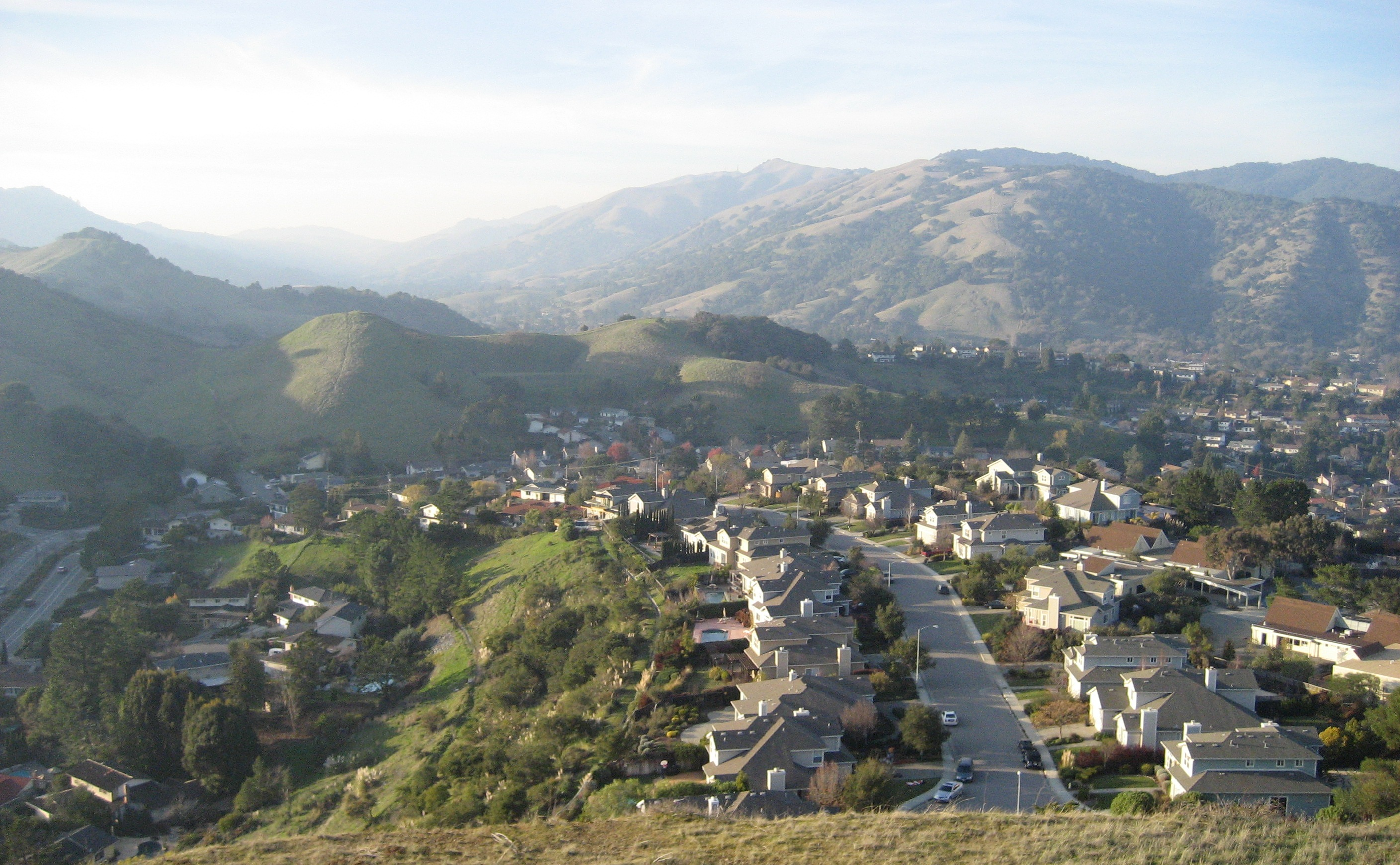 A view of Terra Linda, California.